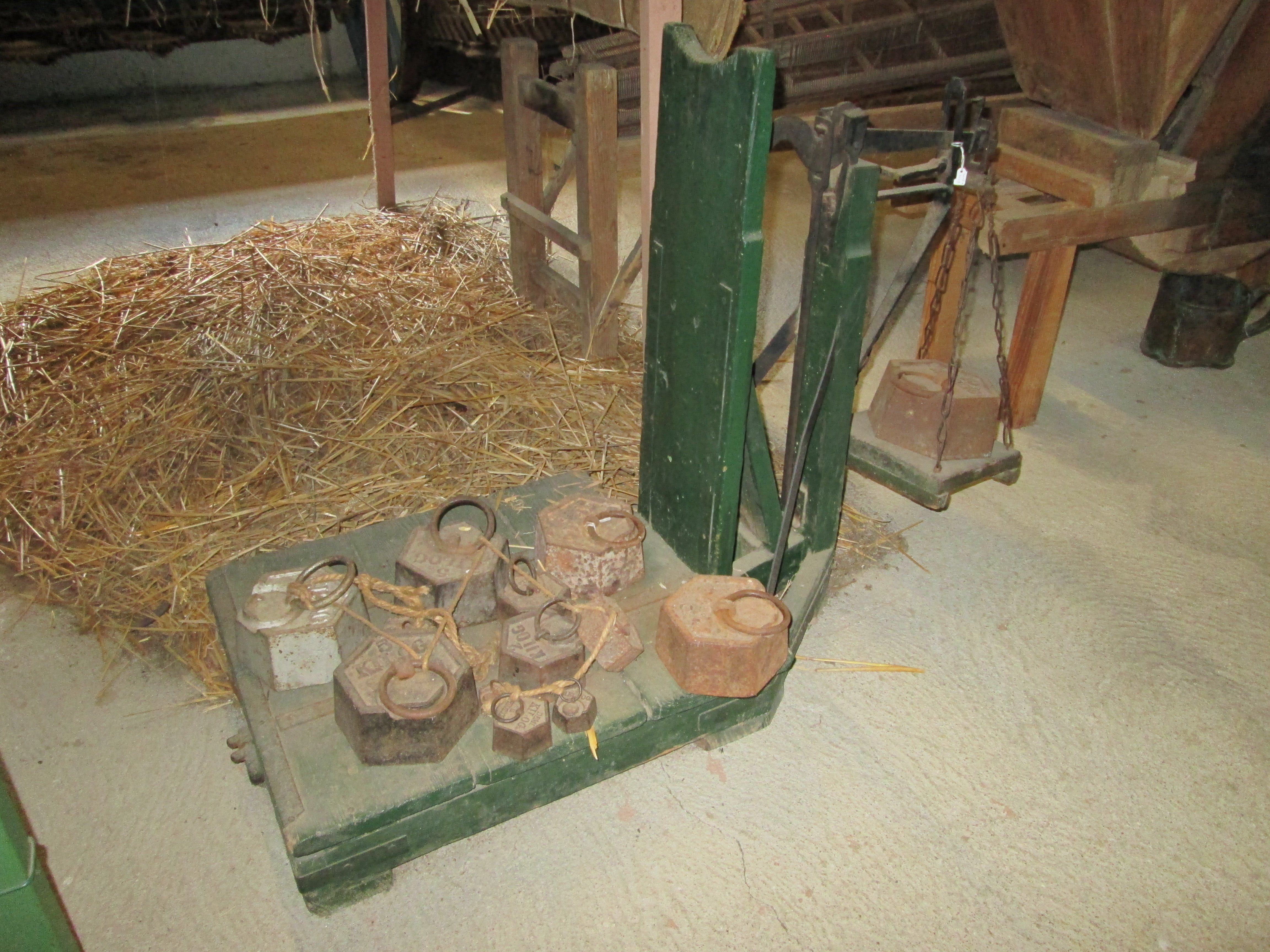 Per google translate: decimal rocker and hex weights at Voulgre André museum.